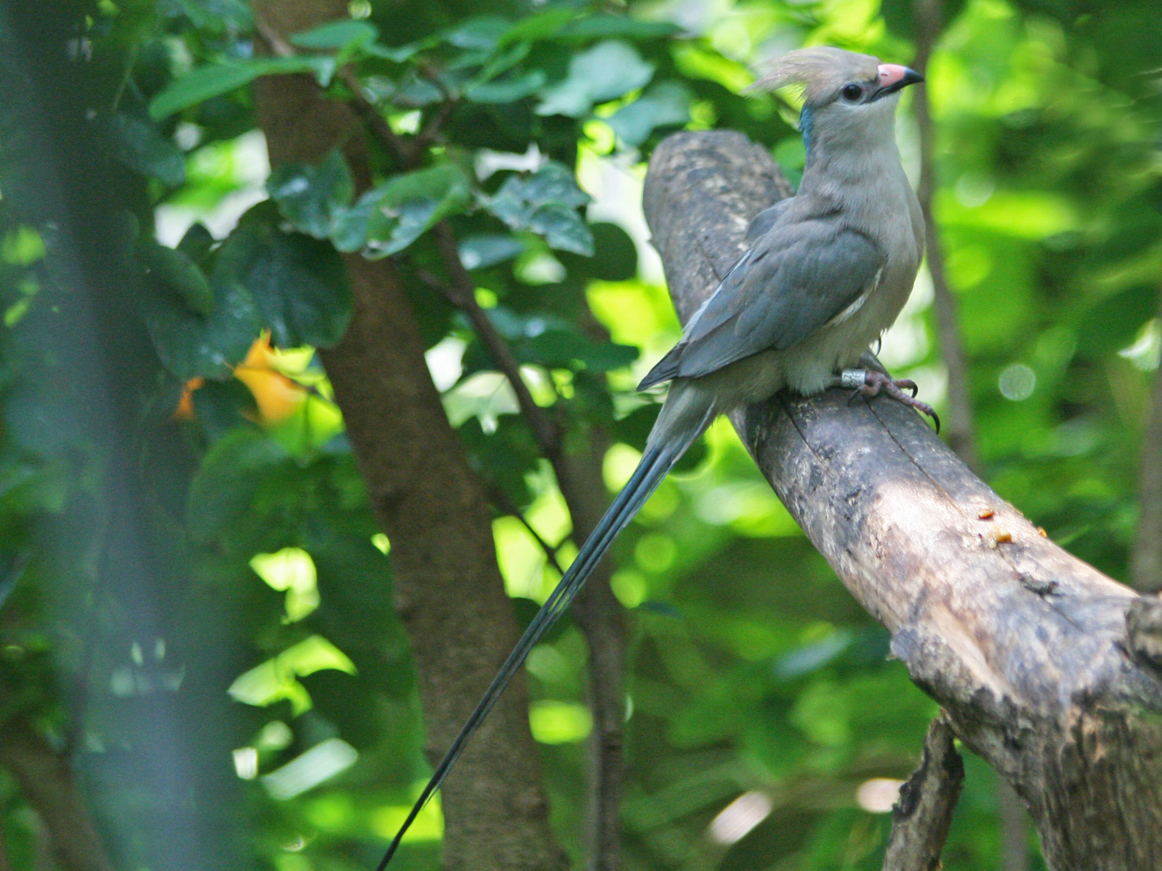 Blue-naped Mousebird (Urocolius macrourus) - North Carolina Zoo, North Carolina